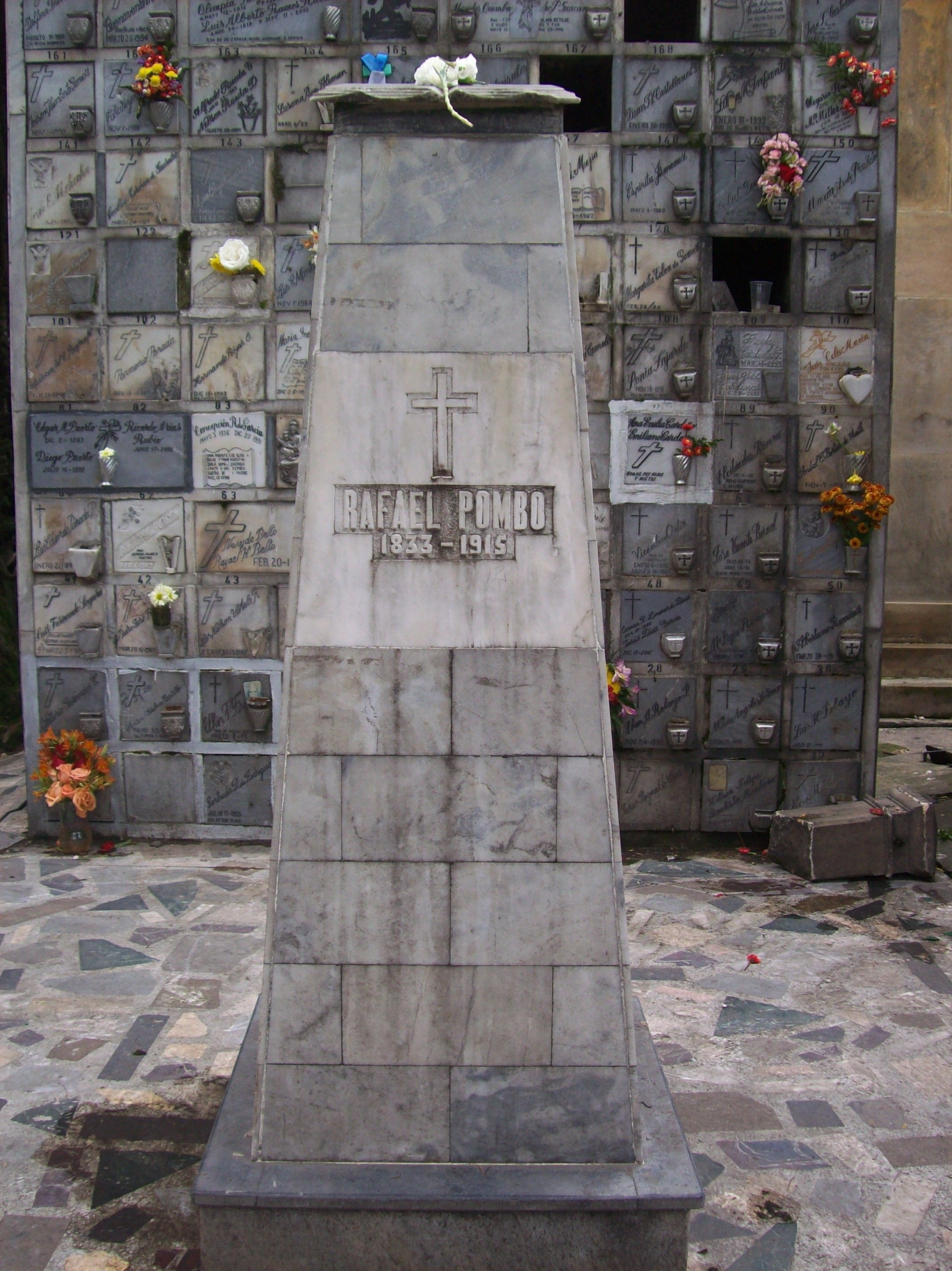 Tomb of Rafael Pombo, Colombian writer and poet